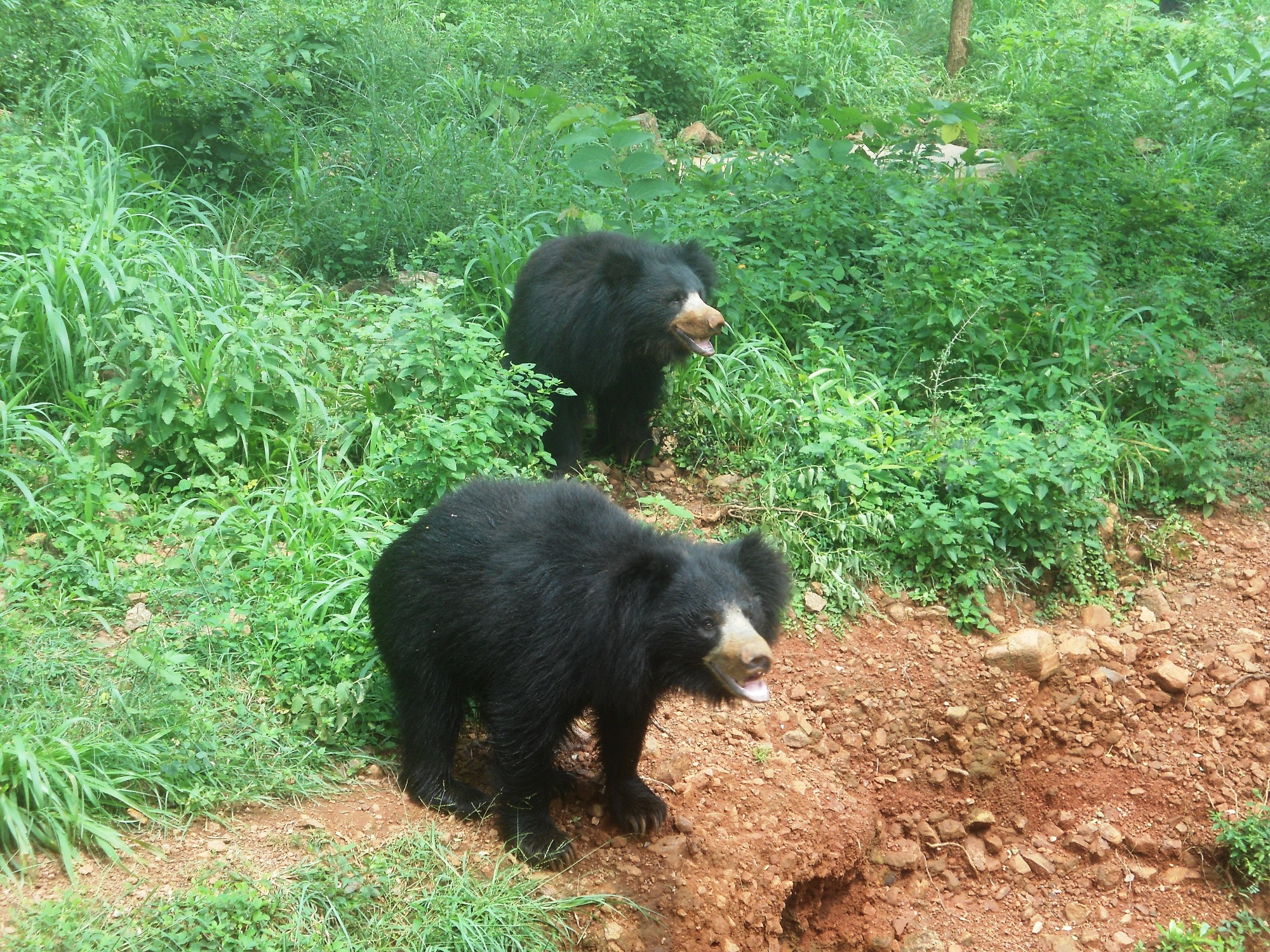 Sloth bears at Indira Gandhi Zoological Park, Visakhapatnam